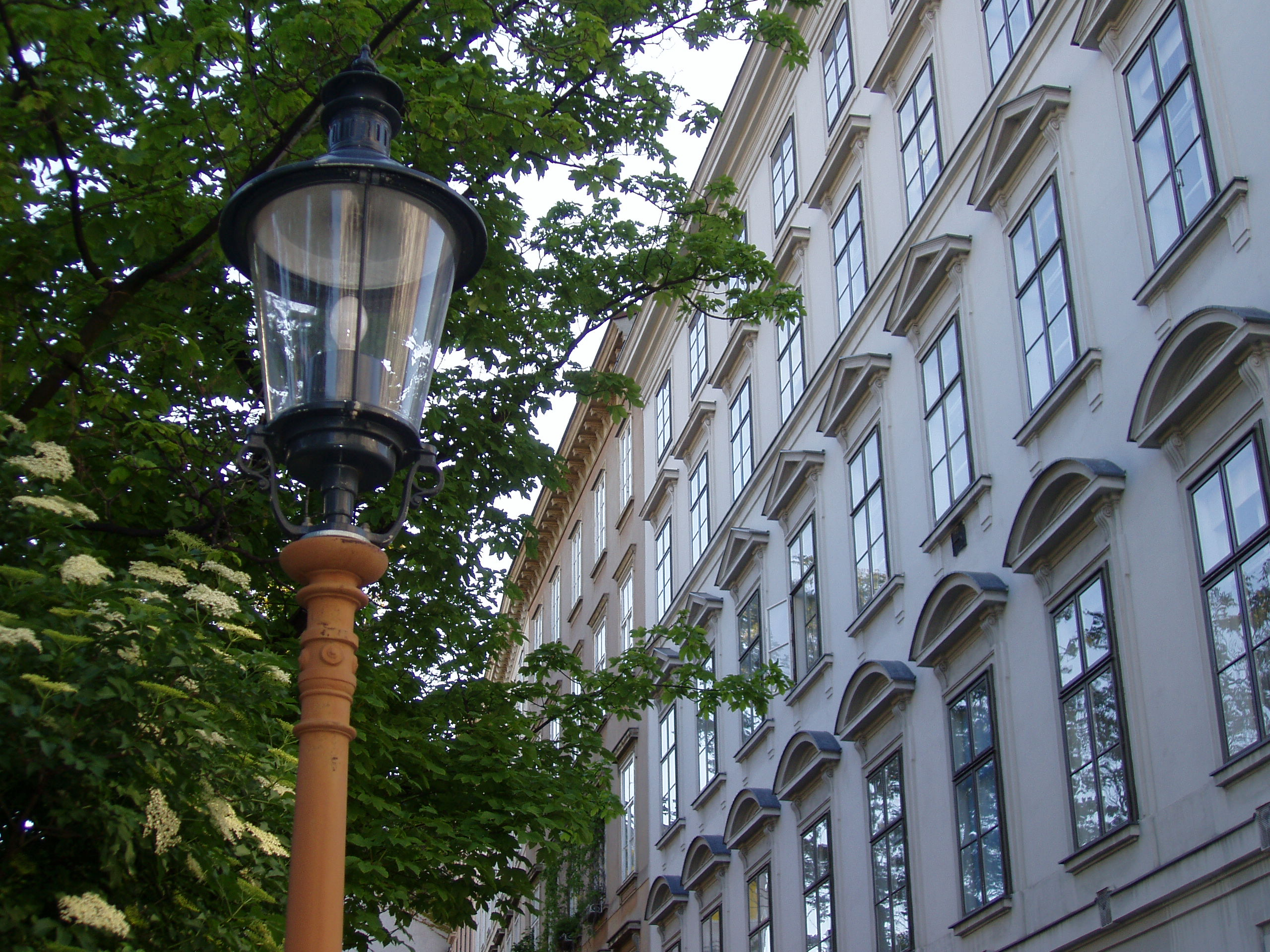 Ludwig van Beethoven residence - Mölkerbastei 8 (Pasqualati House), Vienna, Austria. Photograph taken by me, May 2005.